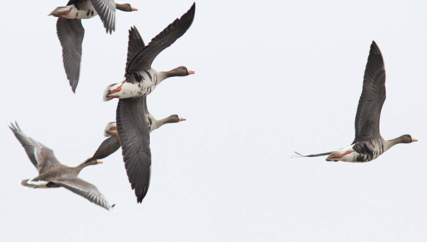 Greater White-fronted Geese Anser albifrons gambelli, Caledonia Sewage Ponds, Kent Co., Michigan